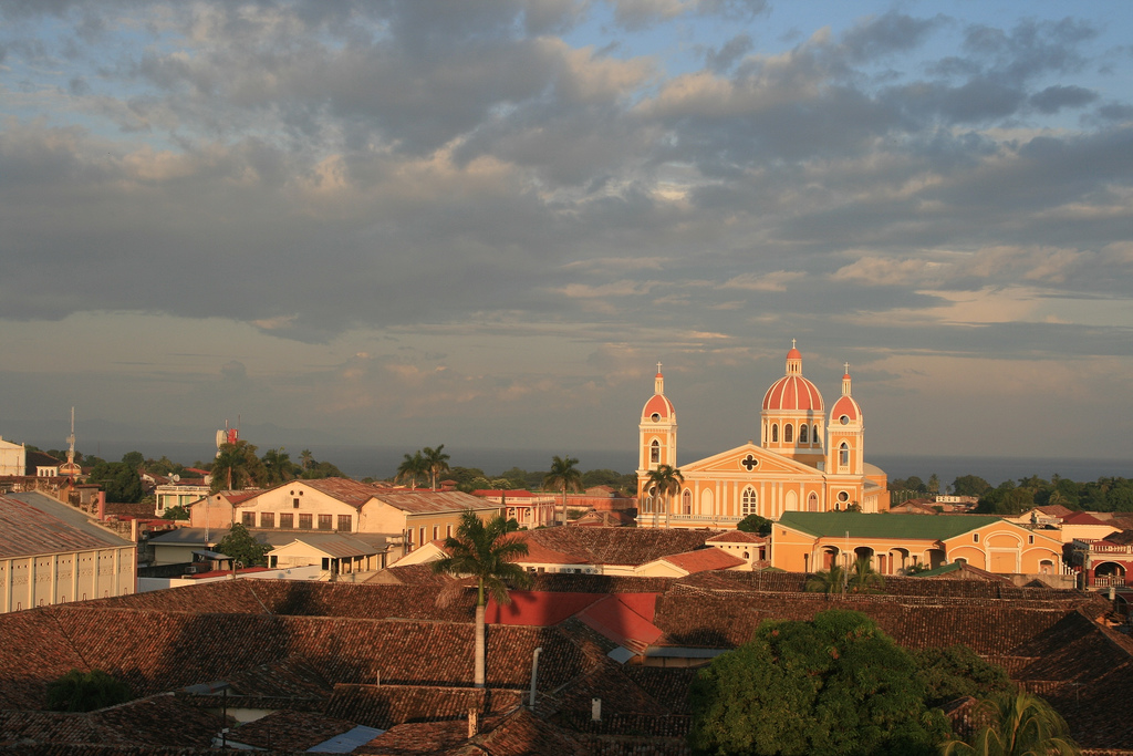 View of Granada, Nicaragua with the Cathedral.